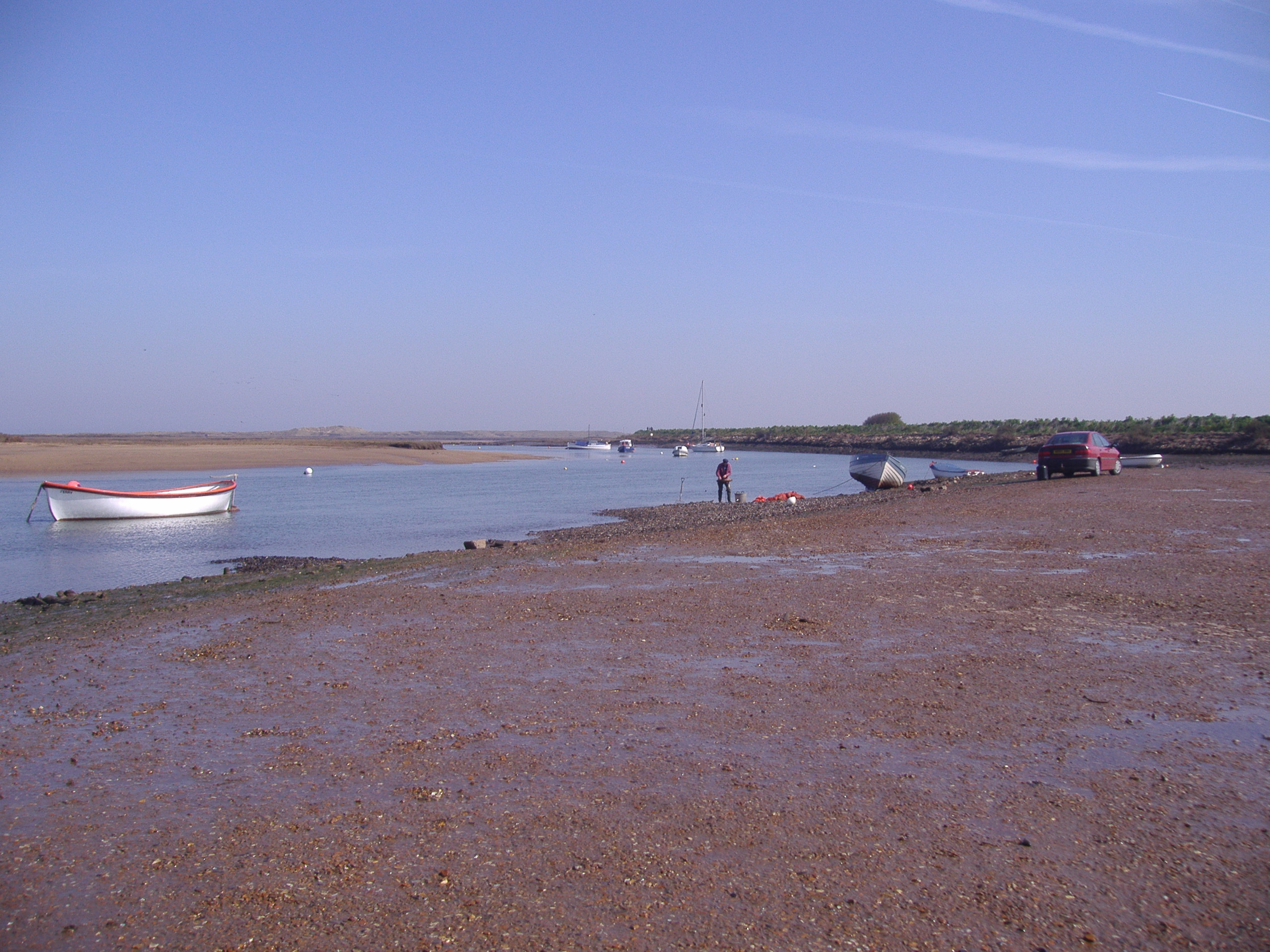 A Digital Photograph of the Mouth of the River Burn